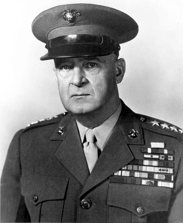 Picture of Alexander A. Vandegrift, courtesy of the United States Marine Corps. From License: Information presented on this site is considered public information and may be distributed or copied. Use of appropriate byline/photo/image credits is requested. ( Vandegrift, Alexander Archer